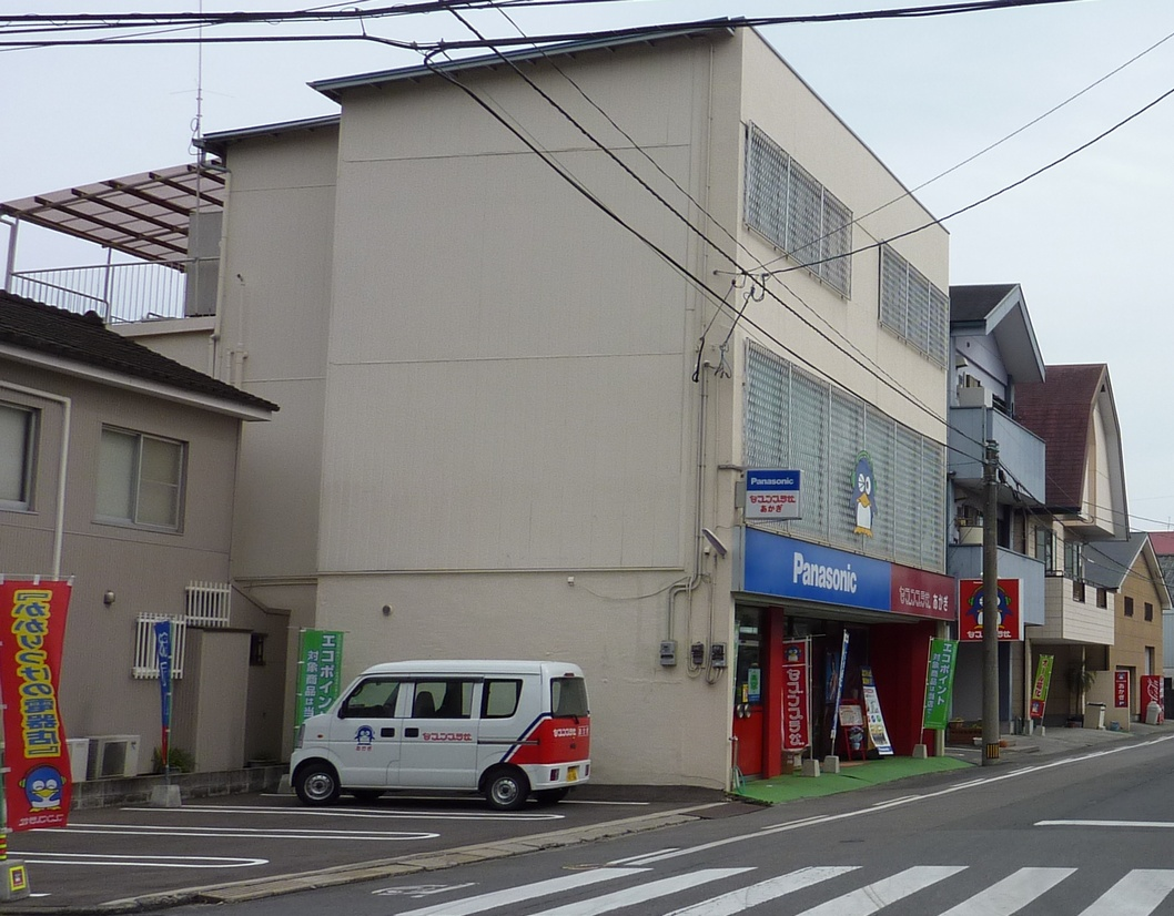 Seven Plaza Akagi Store (Electronics shop in Nobeoka City, Miyazaki, Japan)